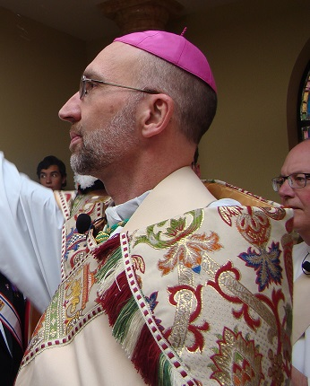 Photo of John Doerfler, an American Roman Catholic Bishop.